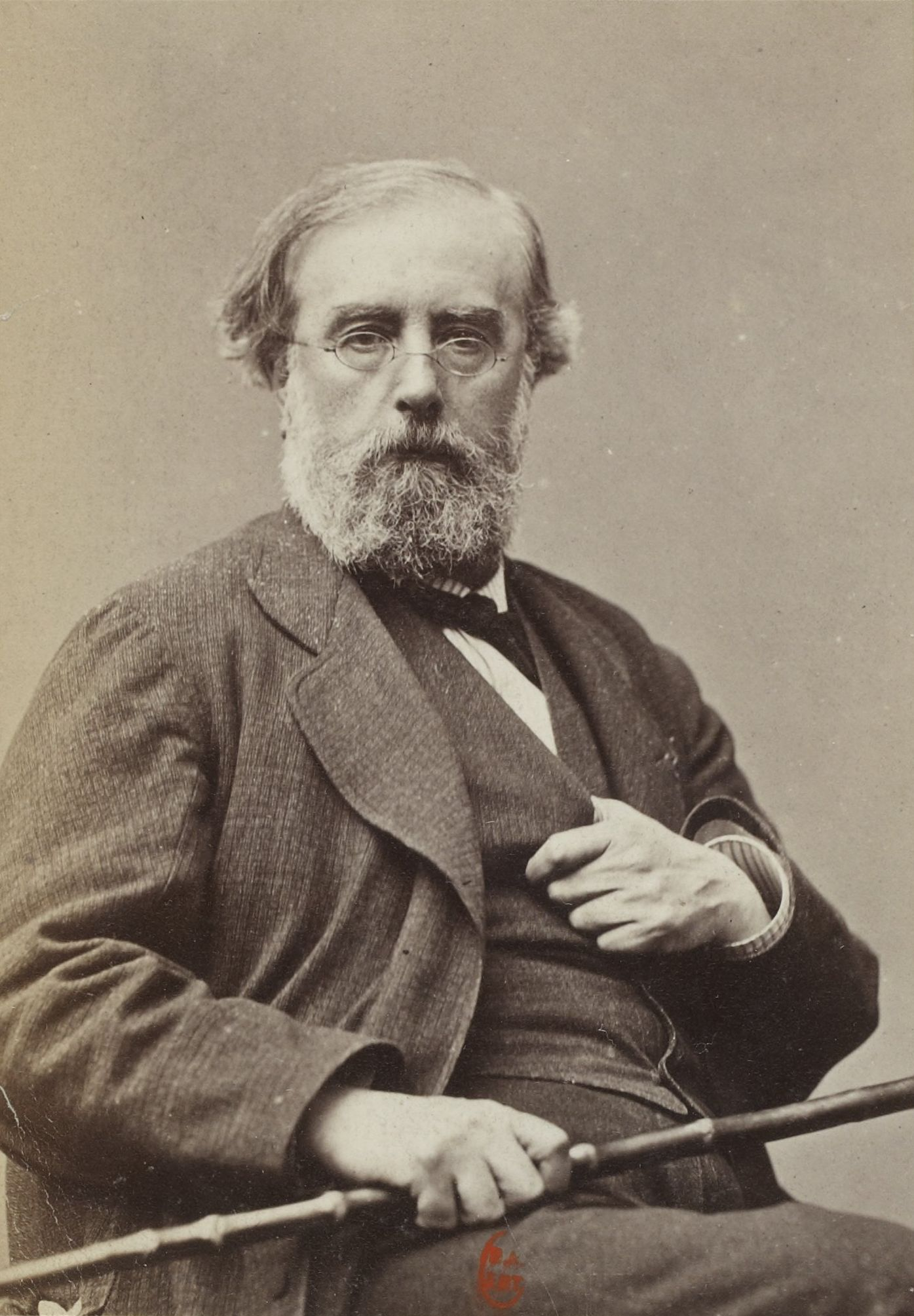 Portrait of Auguste Gendron